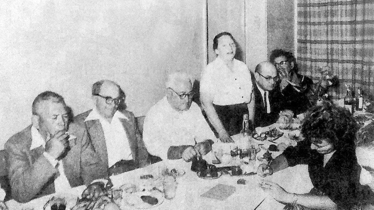 At Yehuda and Zvi party